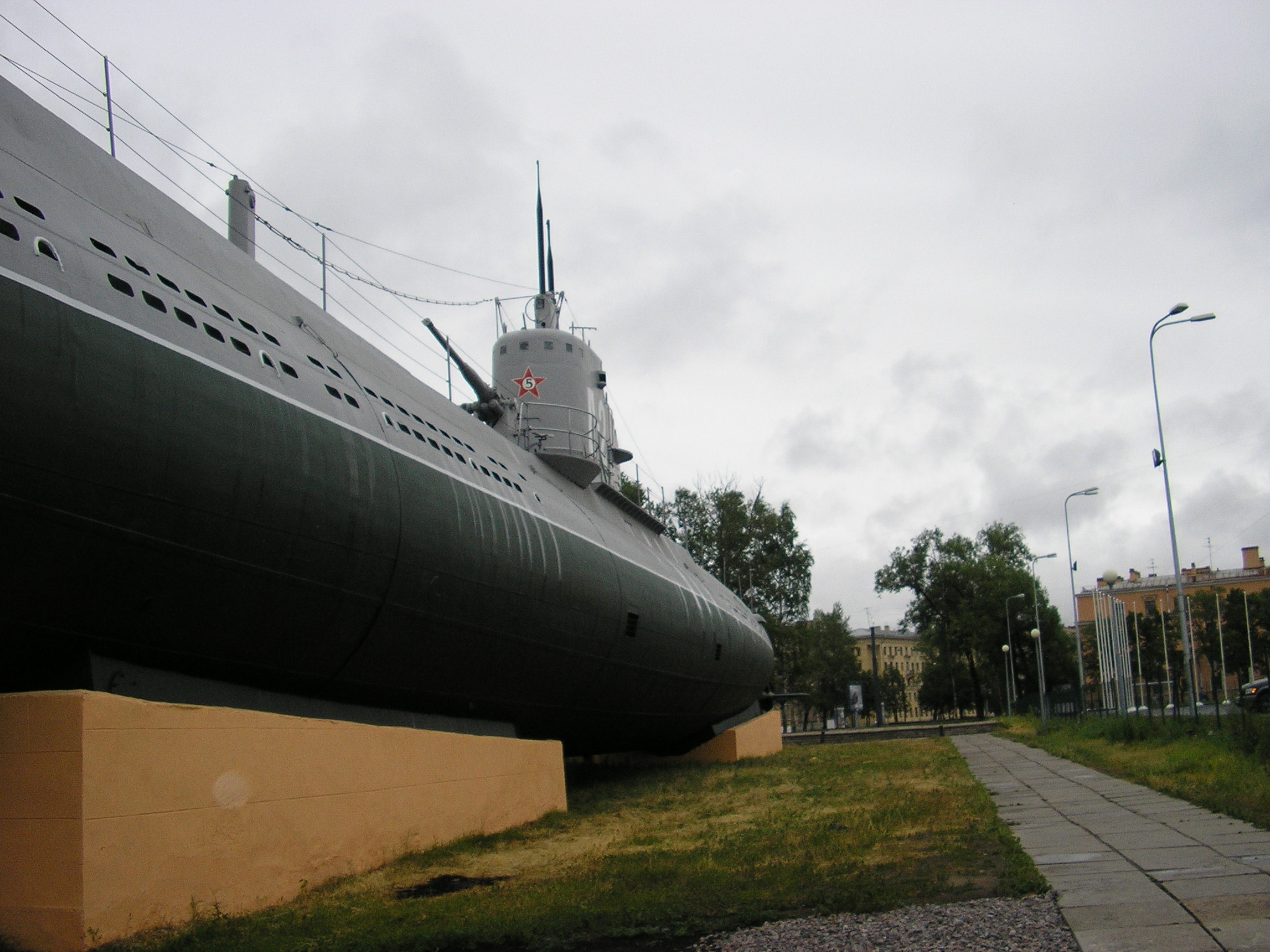 Photo of soviet museum submarine D-2 "Narodovolets" of Dekabrist class